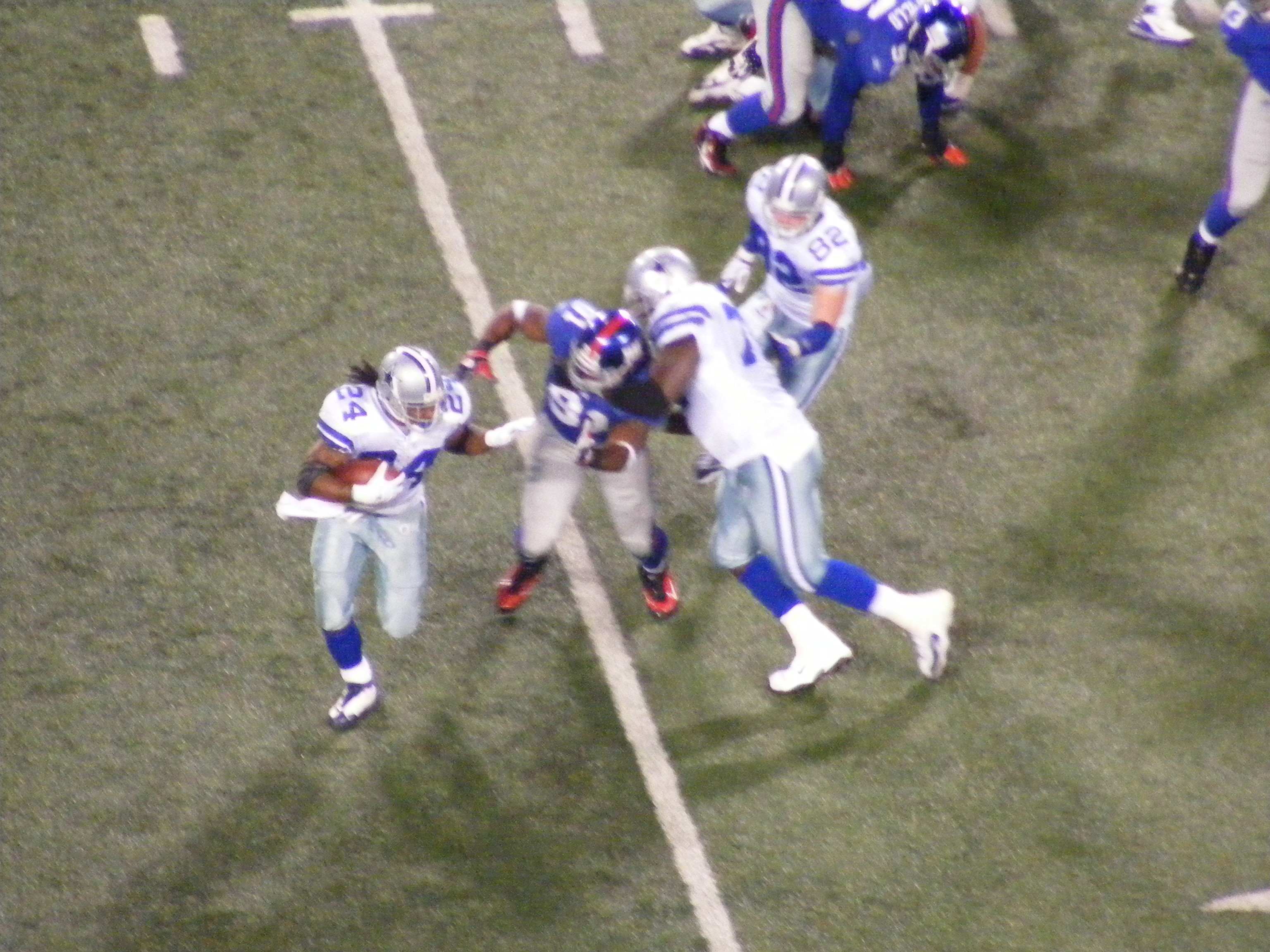 A Dallas Cowboys offensive lineman holds Justin Tuck, preventing him from tackling Marion Barber.